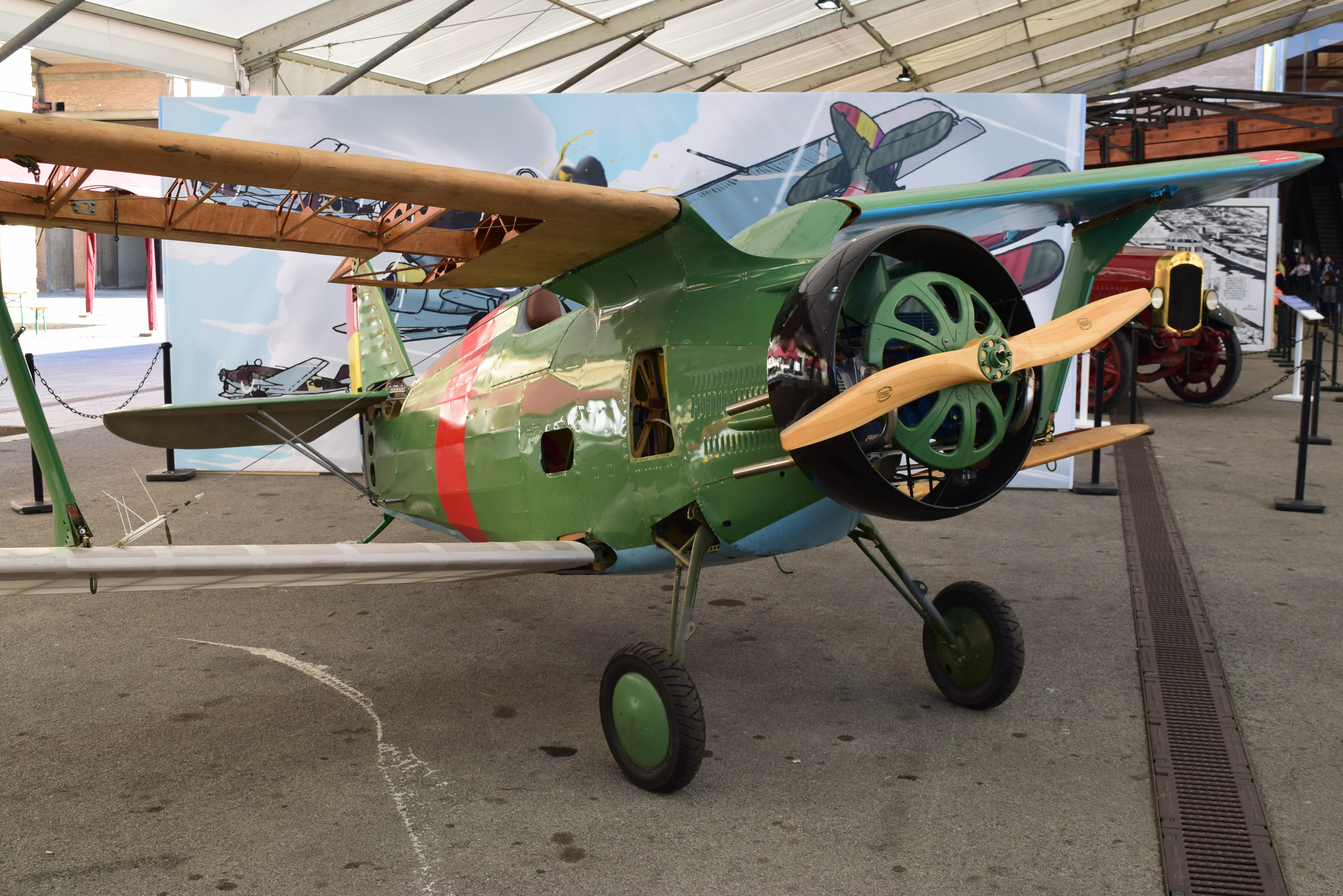 Polikarpov I-15, nicknamed Chaika at the Barcelona International Comic Fair 2017. Exhibition "Comics in flight". Barcelona International Comic Fair 2017. Thuersday 30 March 2017.